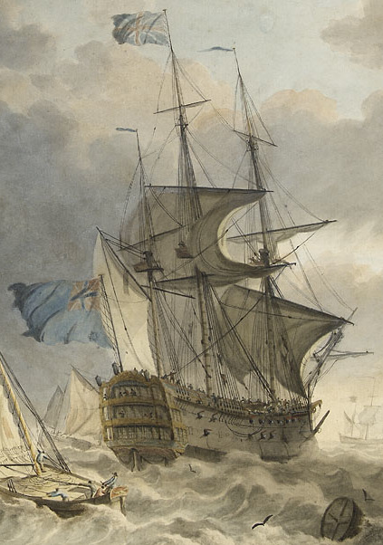 H.M. 'Ocean', 2nd Rate. Union at the Main off Gibraltar with tenders Hendrik Kobell was the eldest and most important of a family of artists originating in Rotterdam. He produced paintings and drawings, but was of considerable importance as an etcher, producing some twenty plates. An old, faint ink inscription on the back of the drawing identifies both the ship and the artist. Although the circumstances of its being made are not known it is likely that the drawing dates from Kobell's stay in England, possibly a commission for an English naval officer. H.M. 'Ocean', 2nd Rate. Union at the Main off Gibraltar with tenders Ocean 1761 [British navy]Terrier de France? [British navy]